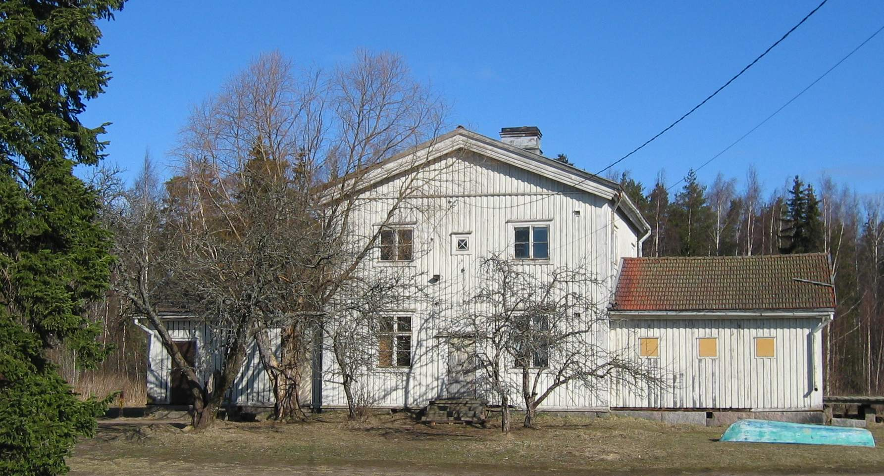 Hietamäki railway station in Mietoinen, Finland